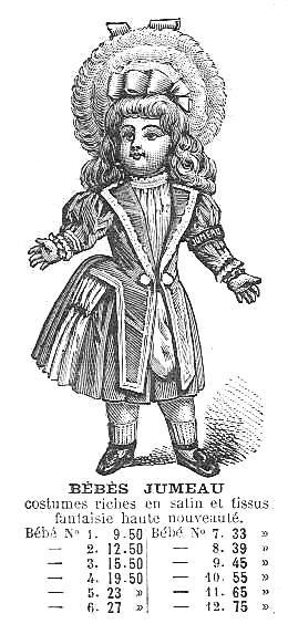 Catalogue engraving of doll made by the French firm of Pierre Francoise Jumeau